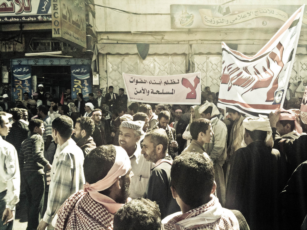 Protest in Sanaa, Yemen (3 February, 2011)